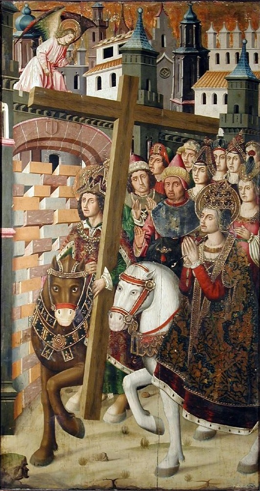 Saint Helena & Heraclius taking the Holy Cross to Jerusalem, Museo de Zaragoza, óleo sobre tabla (195 x 115 cm.) procedente del retablo de la Santa Cruz de Blesa, Teruel.